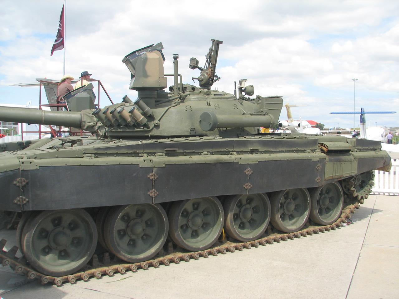 T-72 Main Battle Tank with upgrades by ATE South Africa, Ysterplaat Airshow, Cape Town.jpg ATE's upgrade enhances the mission envelope of the host main battle tank to 3rd generation capability. This includes full day / night combat capabilities for crew and driver, improved first round hit probability, field proven capability to engage moving targets whilst on the move, coincidence firing, muzzle reference system (MRS), and retension electro-hydraulic stabilisation.